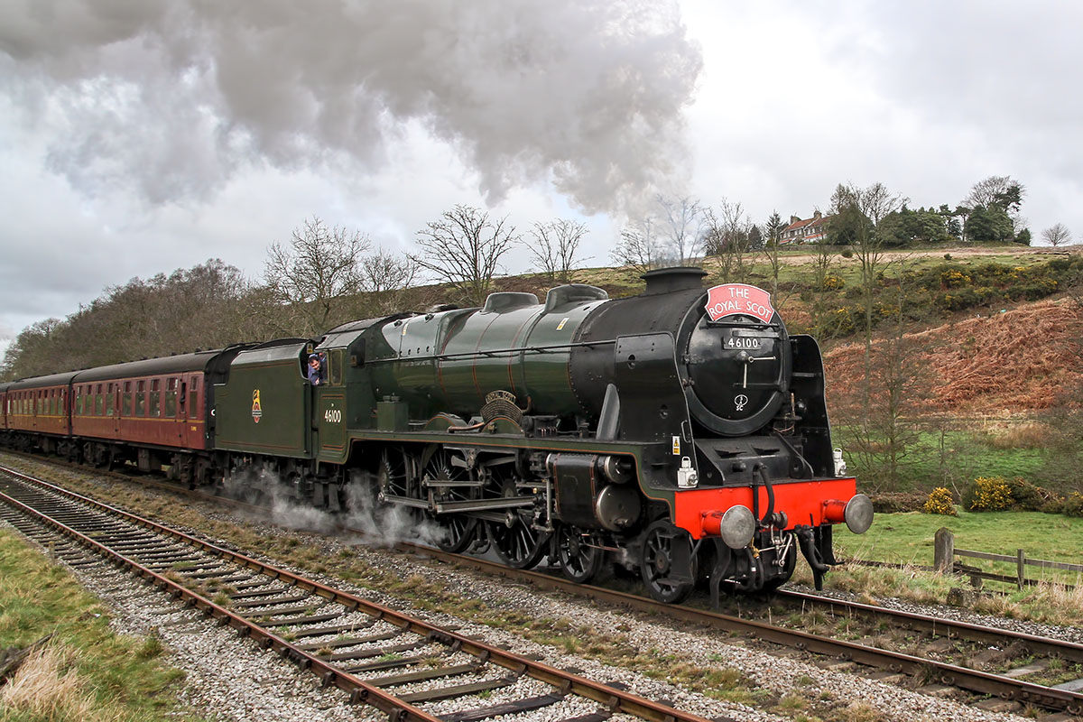 46100 Royal Scot - North Yorkshire Moors Railway, 01/04/2017